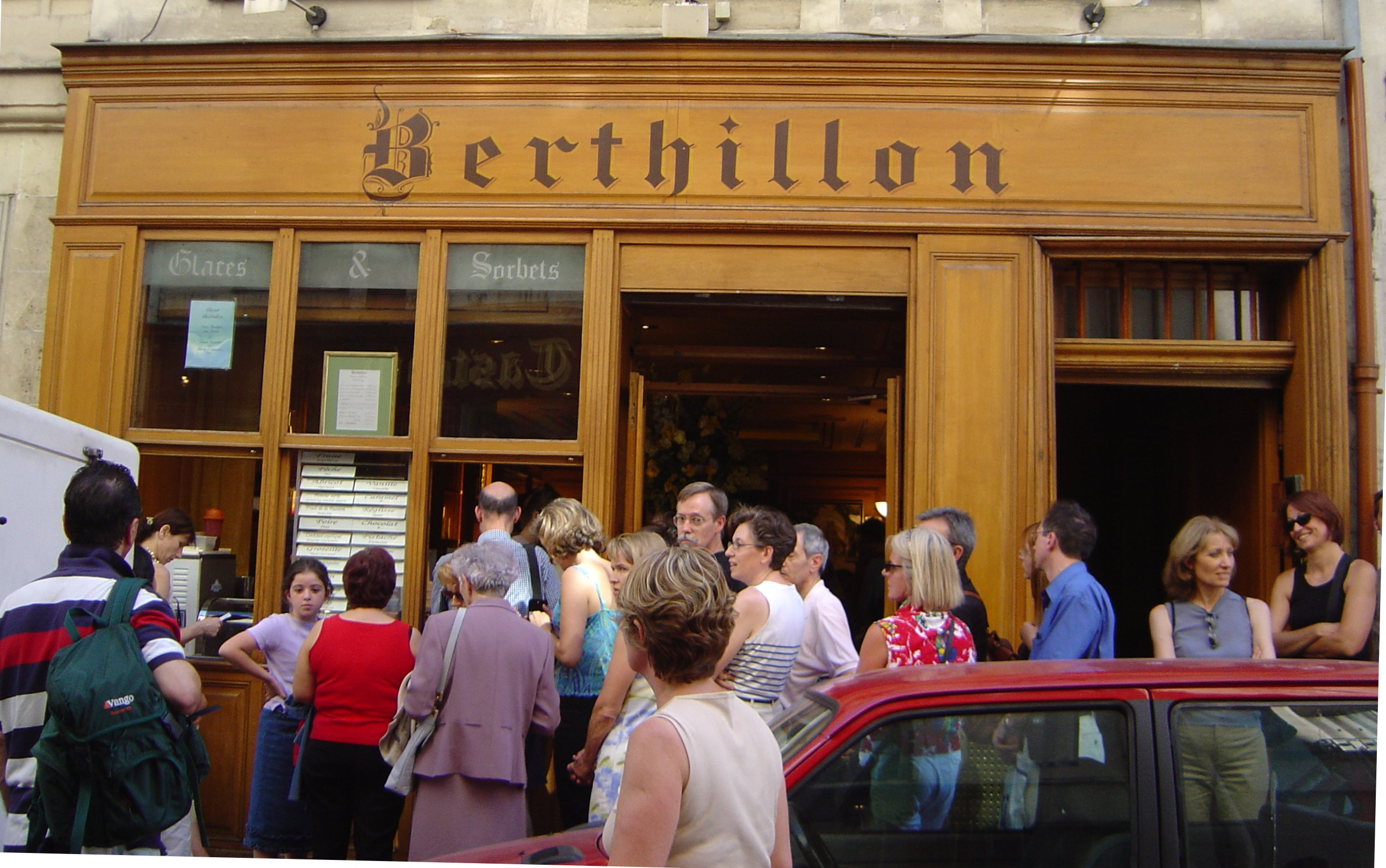 Berthillon ice cream parlor in Paris (France).